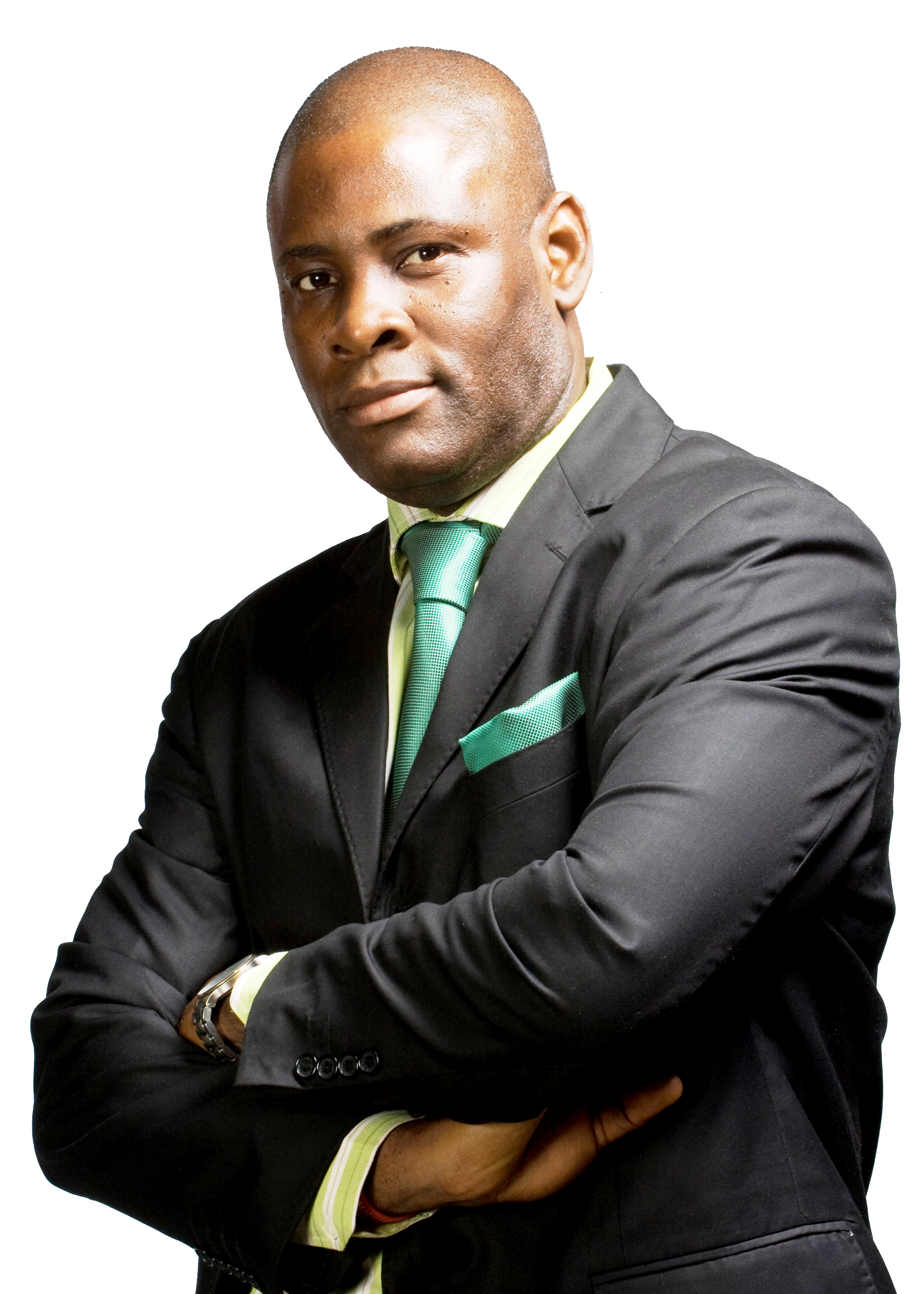 Jot Agyeman is the President of the Institute of Media Practice